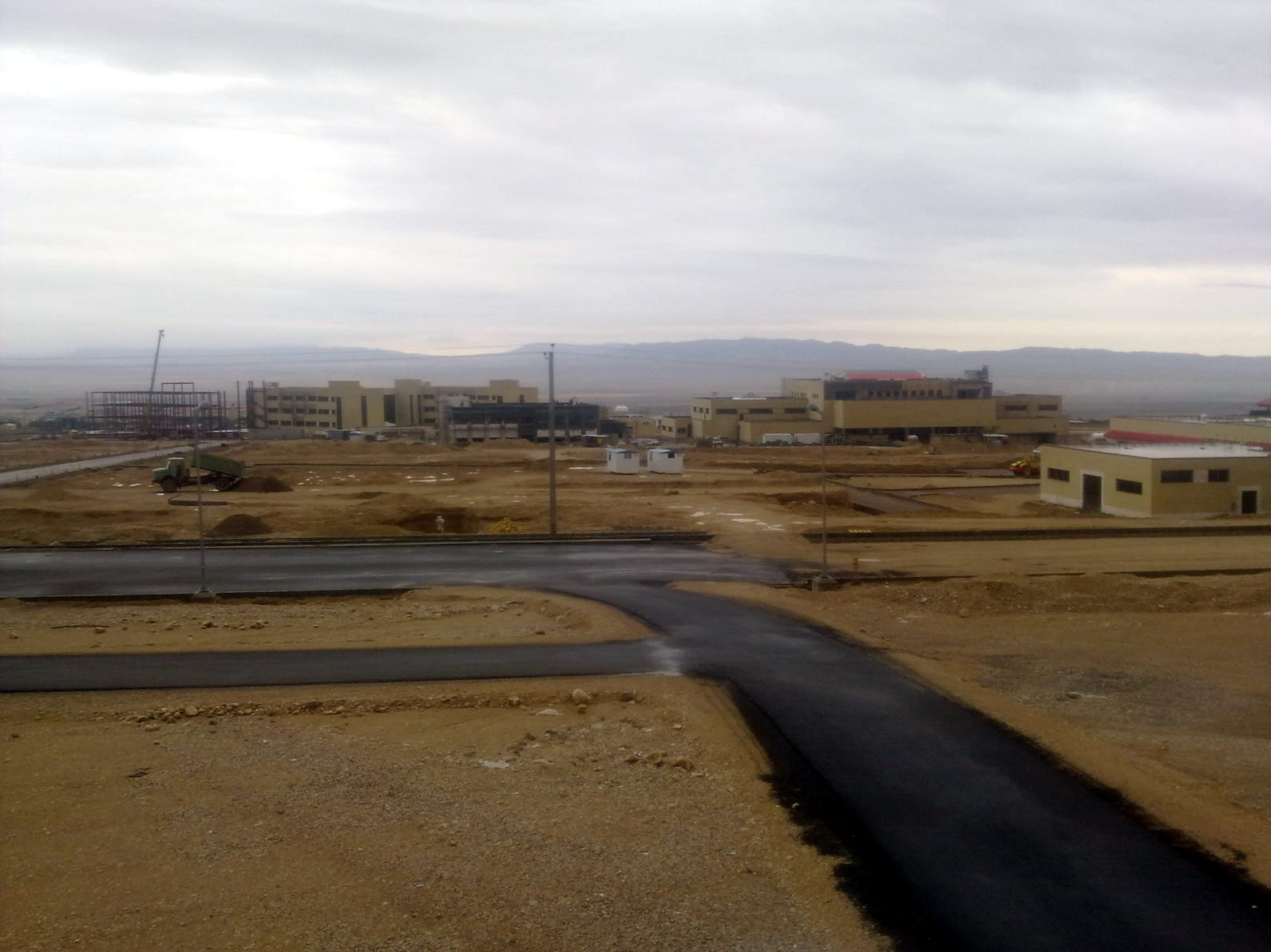 نمایی از پردیس مهندسی دانشگاه شاهرود (عکس از طبقه دوم خوابگاه) اردیبهشت ۹۲